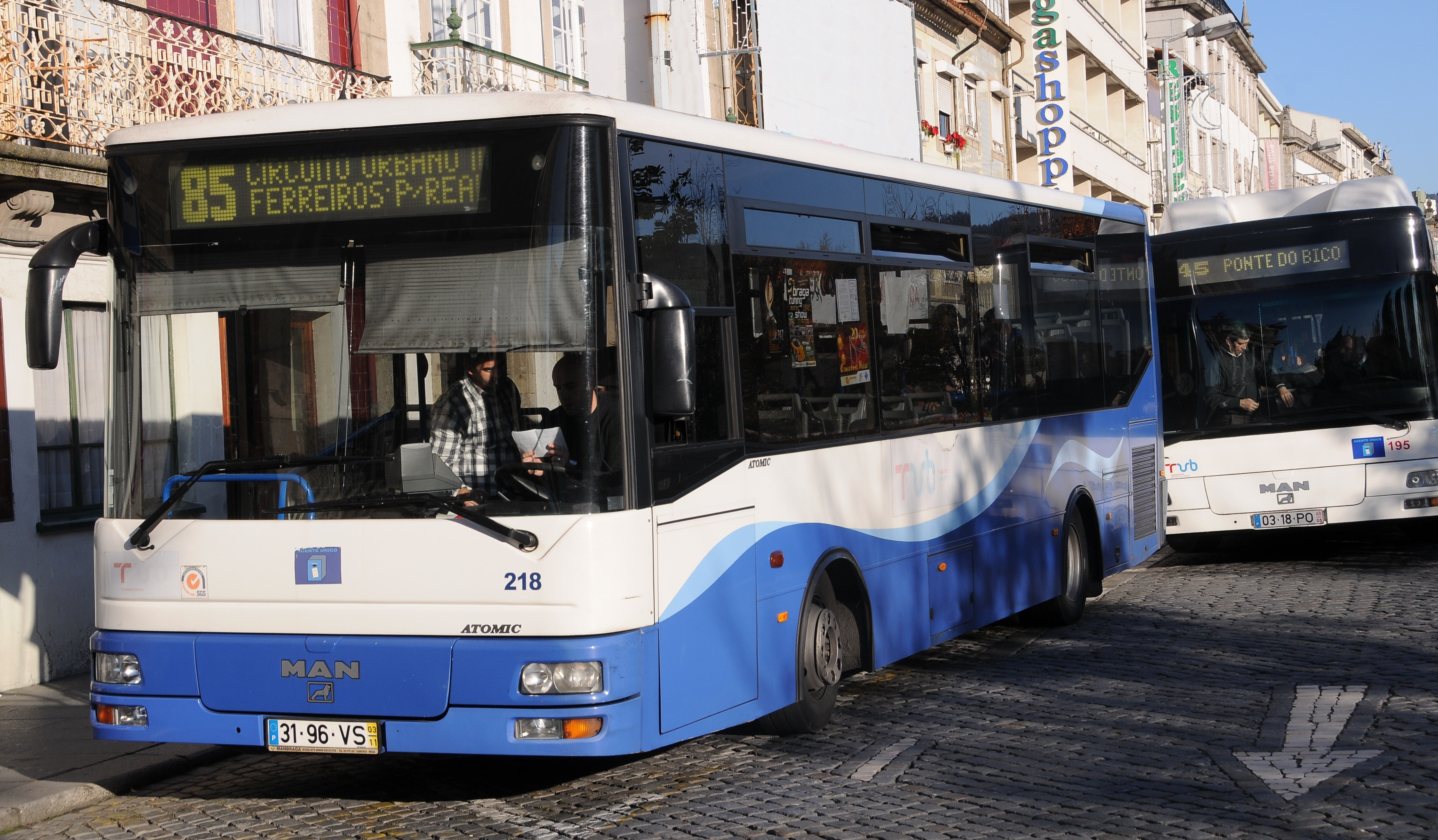 MAN bus (#218) from the company "Transportes Urbanos de Braga" (TUB), Avenida Central. MAN Atomic (chassis bus?).